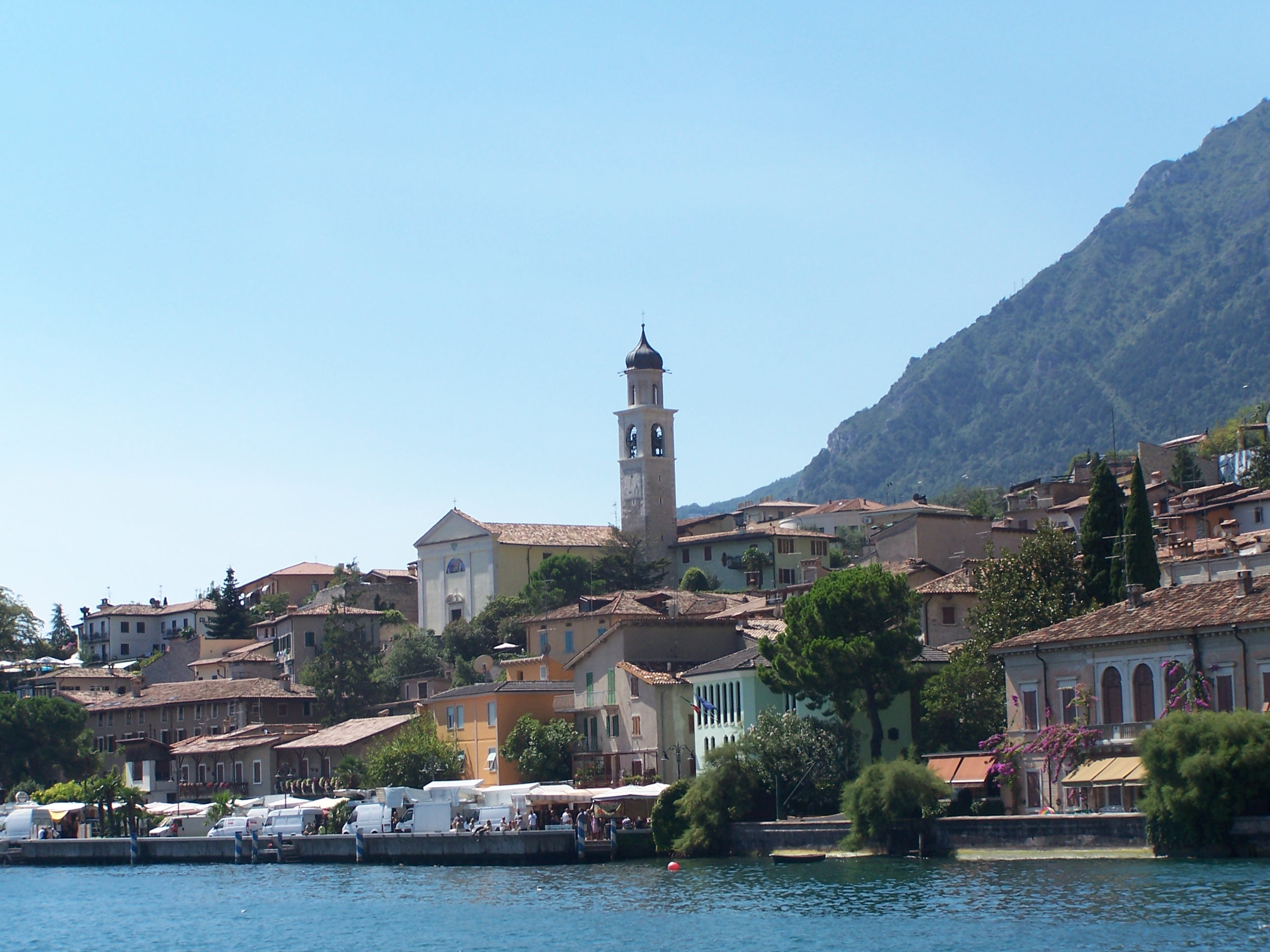 Limone sul Garda, seen from Lake Garda